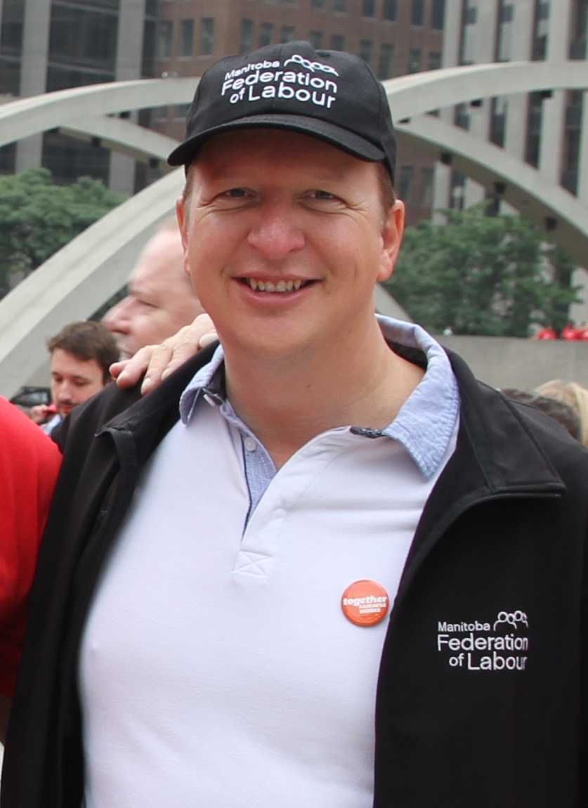 Manitoba Federation of Labour president Kevin Rebeck at a Labour Day parade in 2013 in Ontario